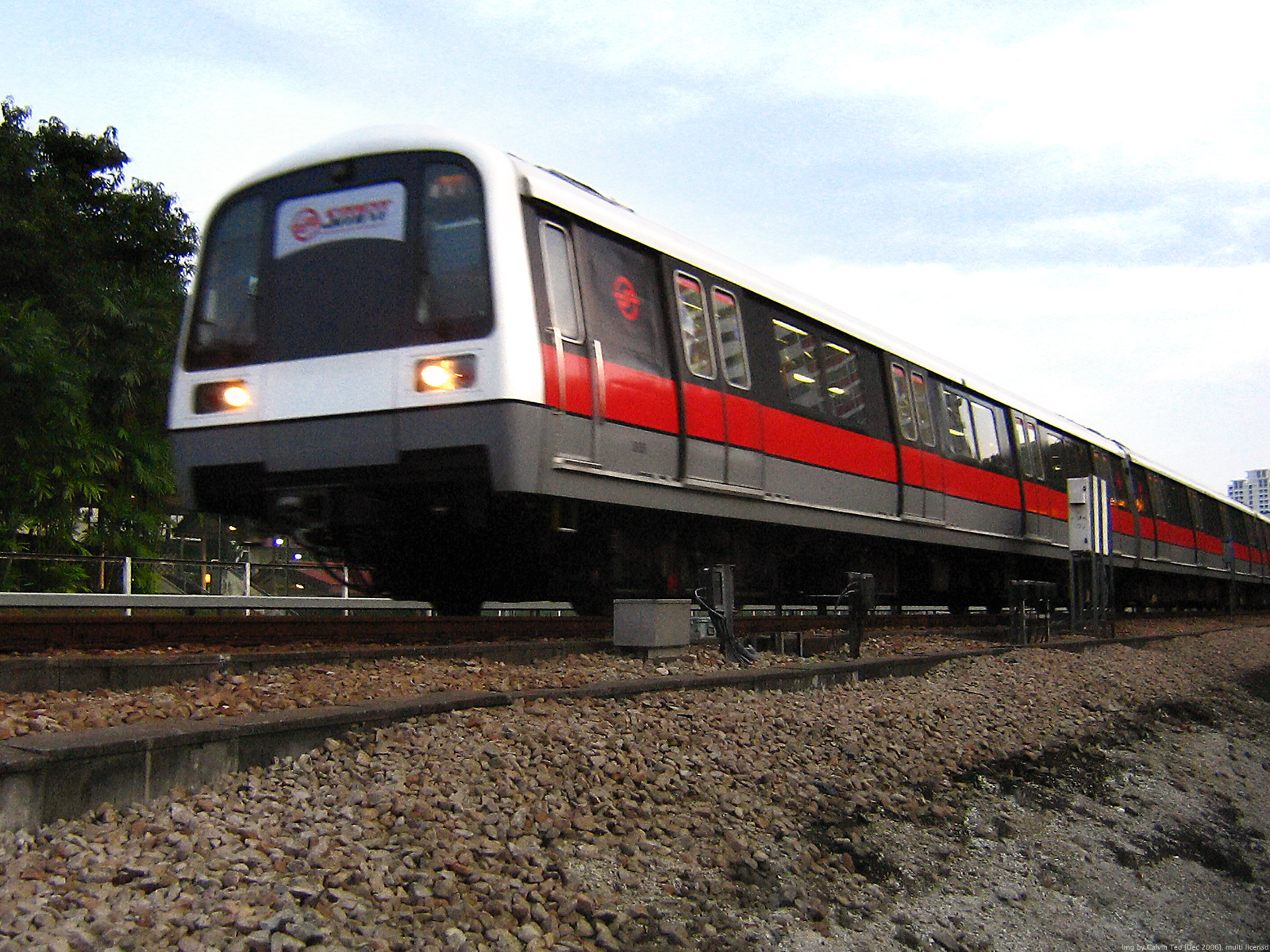 A refurbished Kawsaki Heavy Industries C151 car.